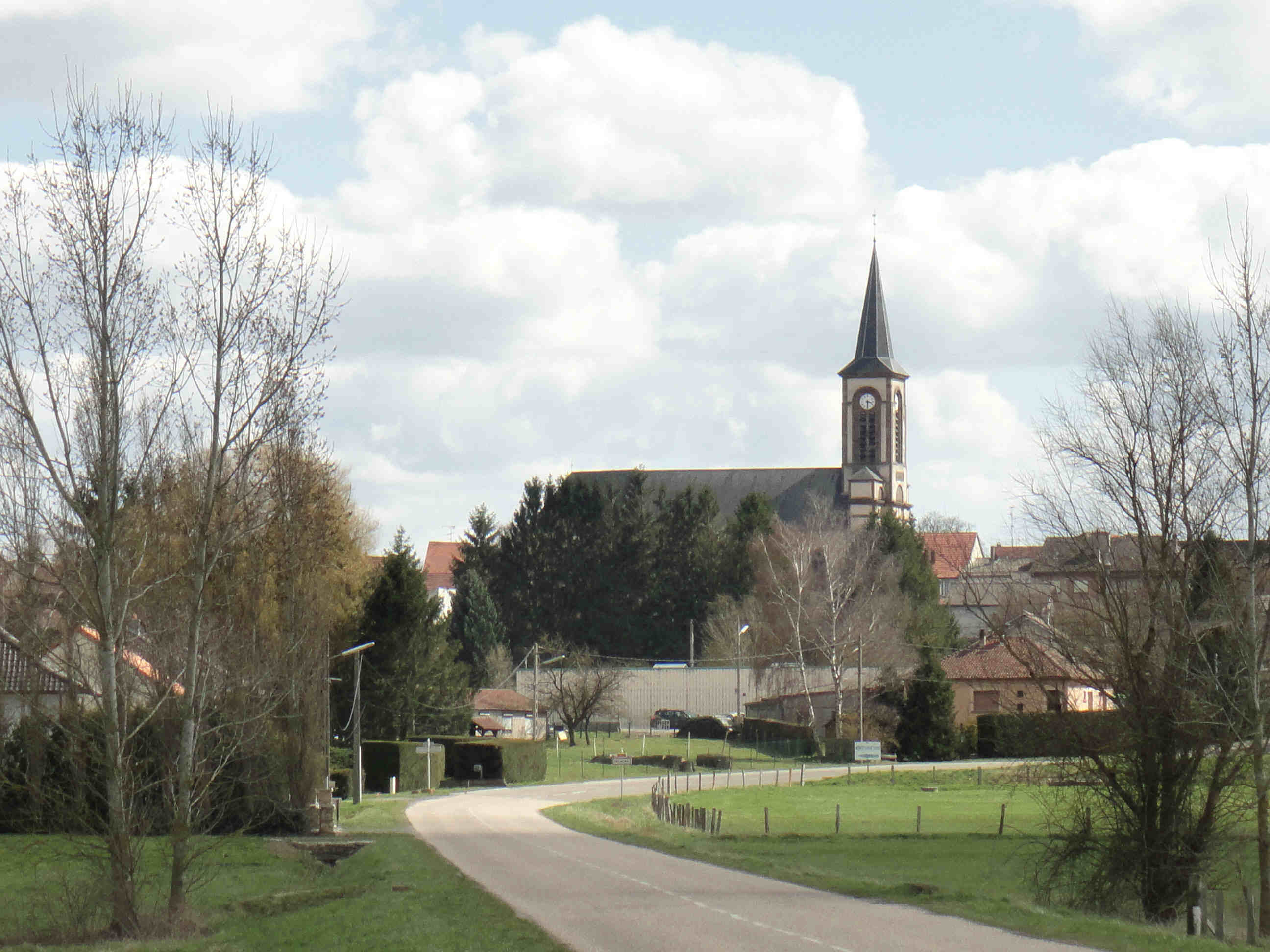 Village of Insming, Lorraine (France)